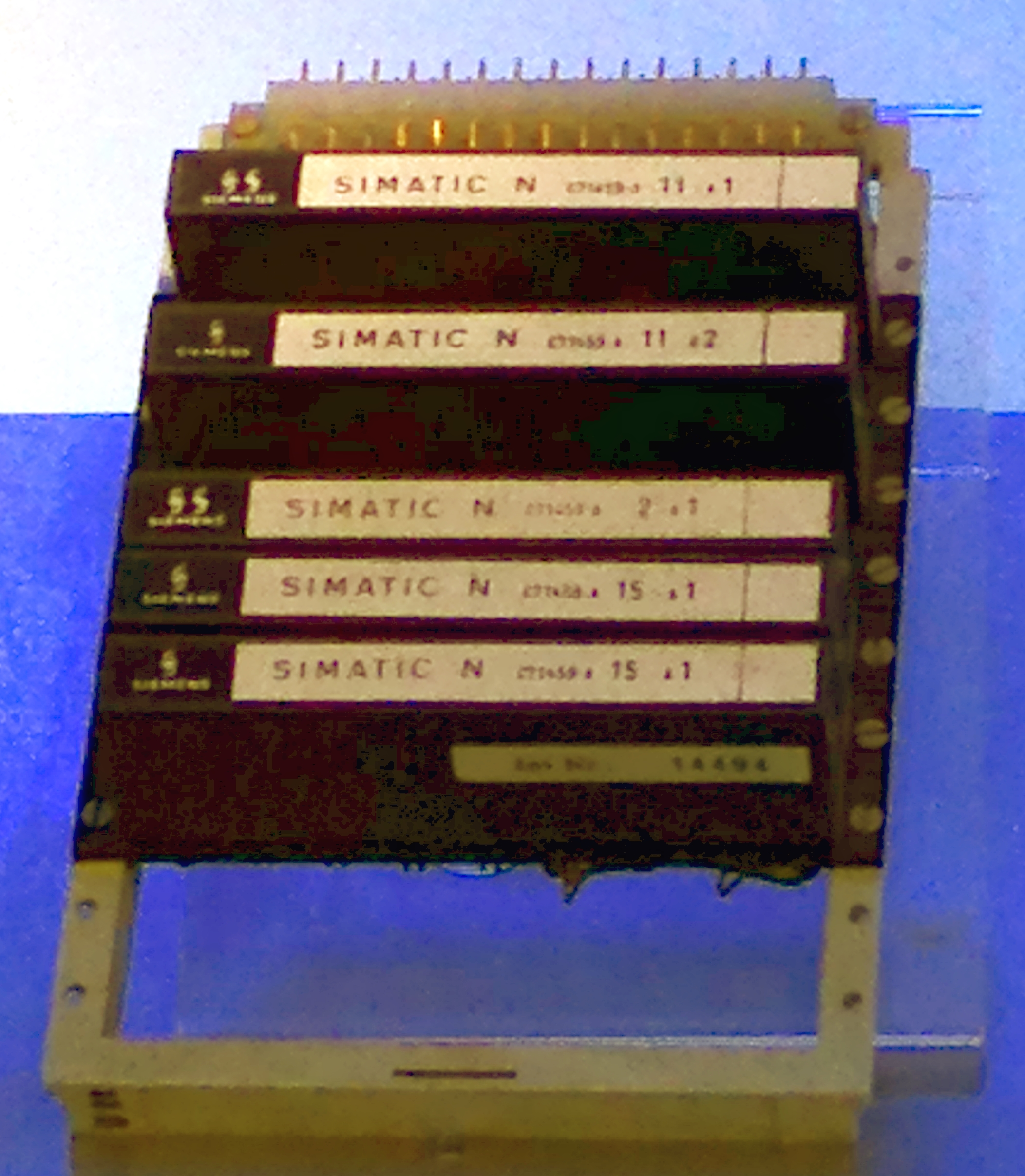 Simatic N